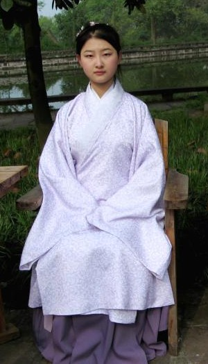 Da-ao (大襖) - Women's Chinese traditional clothing (hanfu)